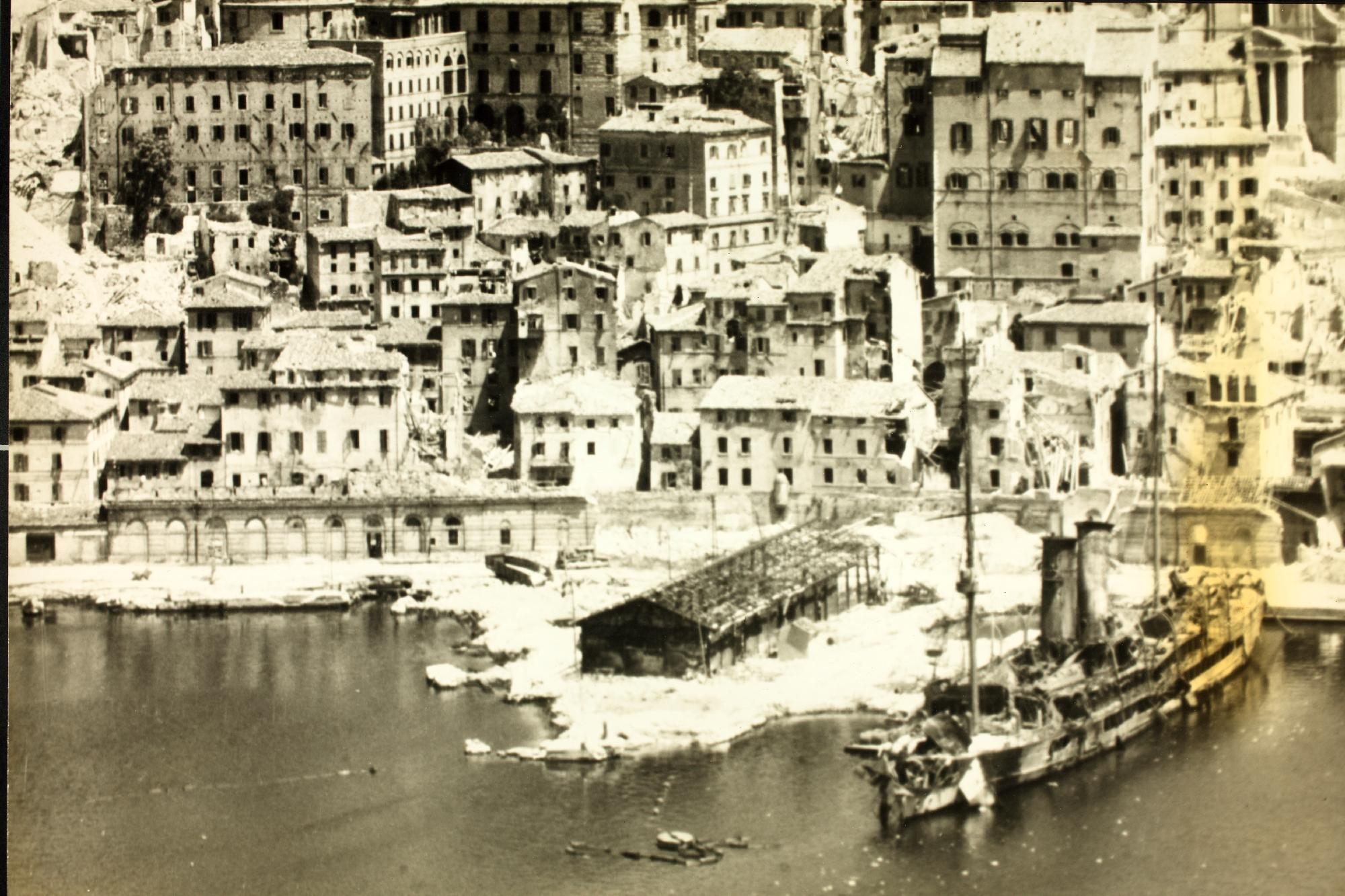 Catalog #: 10_0020336 Title: Reconnaissance Photo Aerial View Ancona Italy ""Operation Strangle"" Date: 1941-1945 Additional Information: World War Two Tags: Reconnaissance Photo Aerial View Ancona Italy ""Operation Strangle"", World War Two, 1941-1945 Repository: San Diego Air and Space Museum Archive